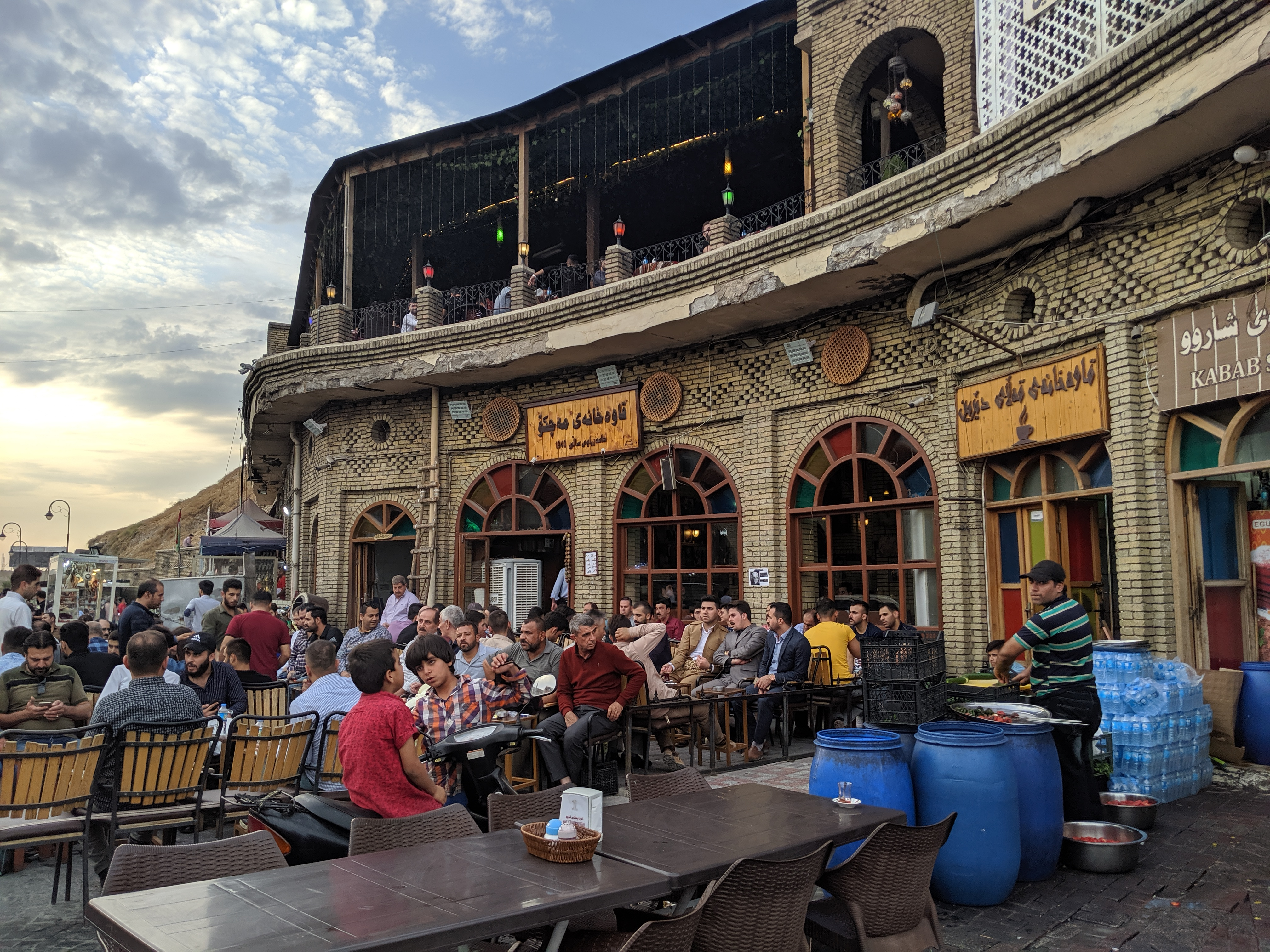 Mechko Cafe, Erbil 2019